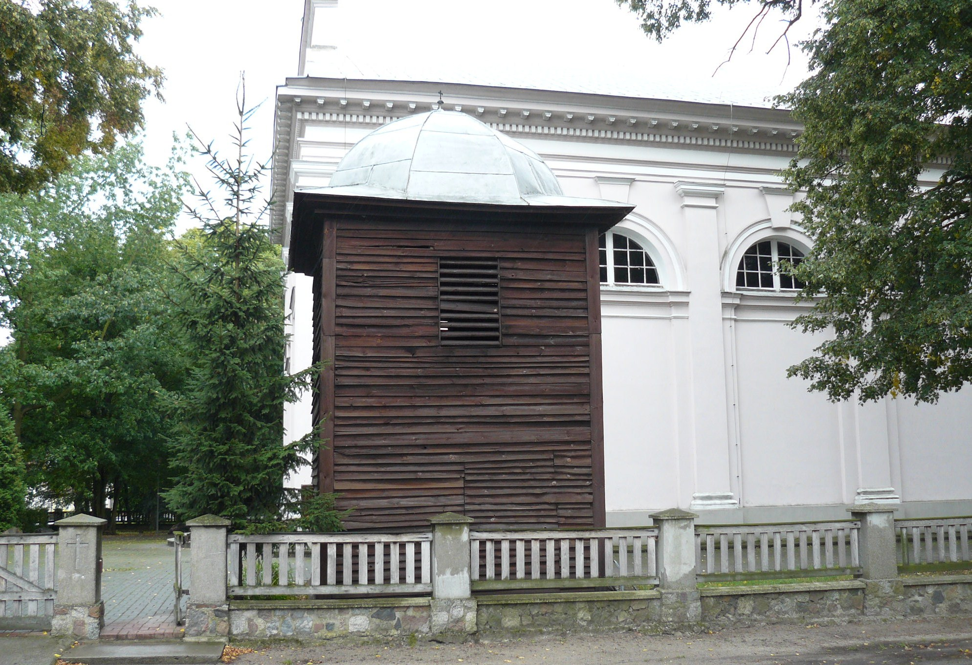 Bell tower in Kołaczkowo, Poland